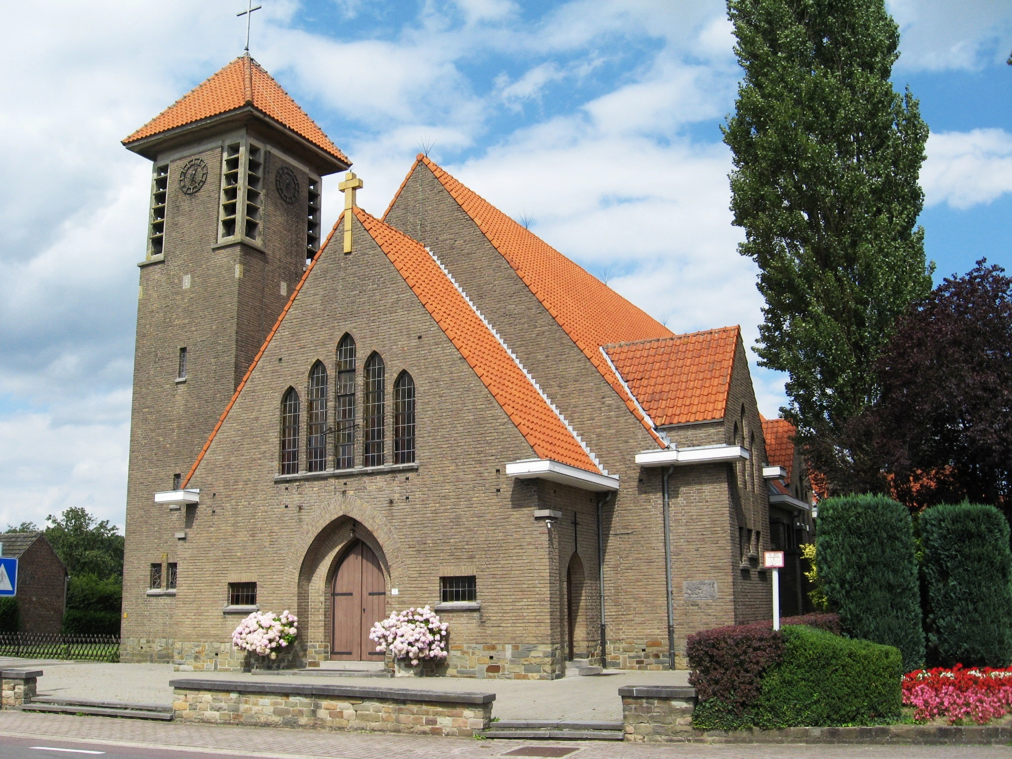 Church of Saint Roch in Ulbeek, Wellen, Limburg, Belgium